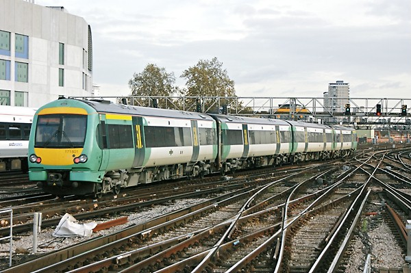 Bombardier (Derby) Class 171/8 "Turbostar" 750v dc 3rd rail outer-suburban 4-car emu No.171 801 of Southern leaving London Bridge on a service to East Grinstead, 11/08.